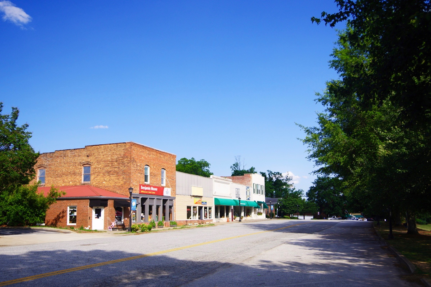 Businesses along Trade Avenue (S-562) in Landrum, South Carolina, United States.